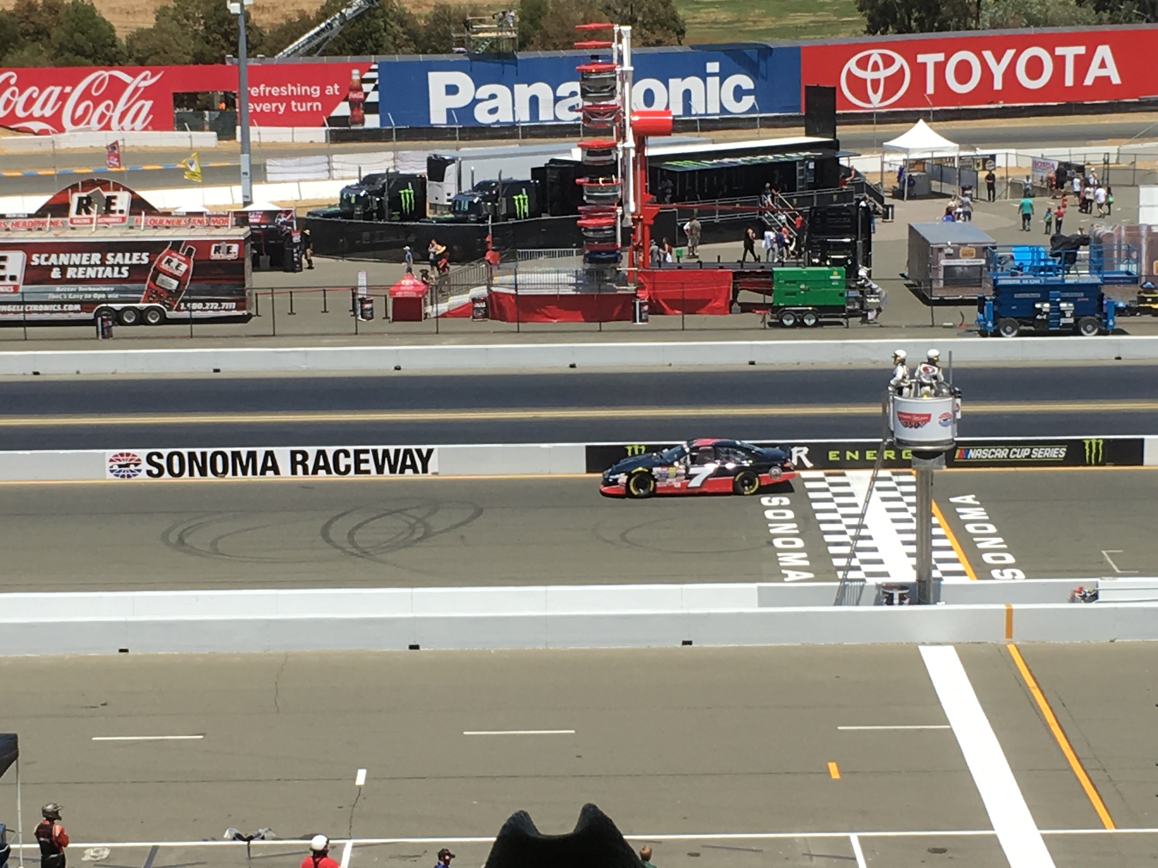 Will Rodgers during the 2017 Carneros 200.